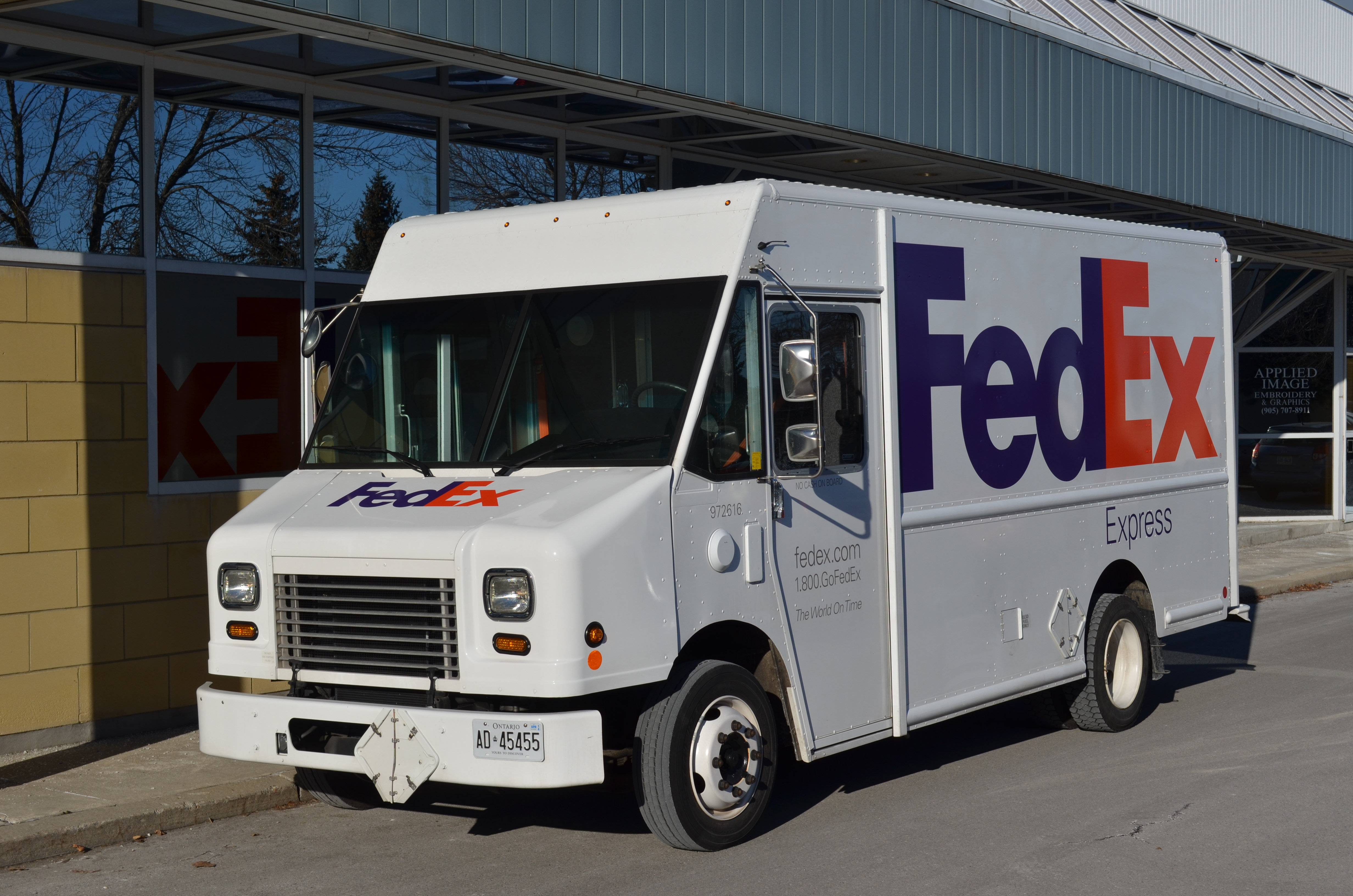 A FedEx Truck in Ontario, Canada